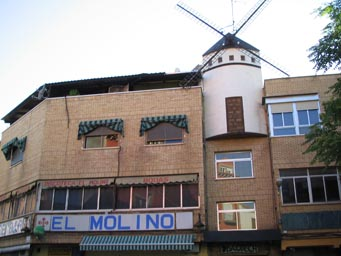 Tipic Building in Herencia (Spain)